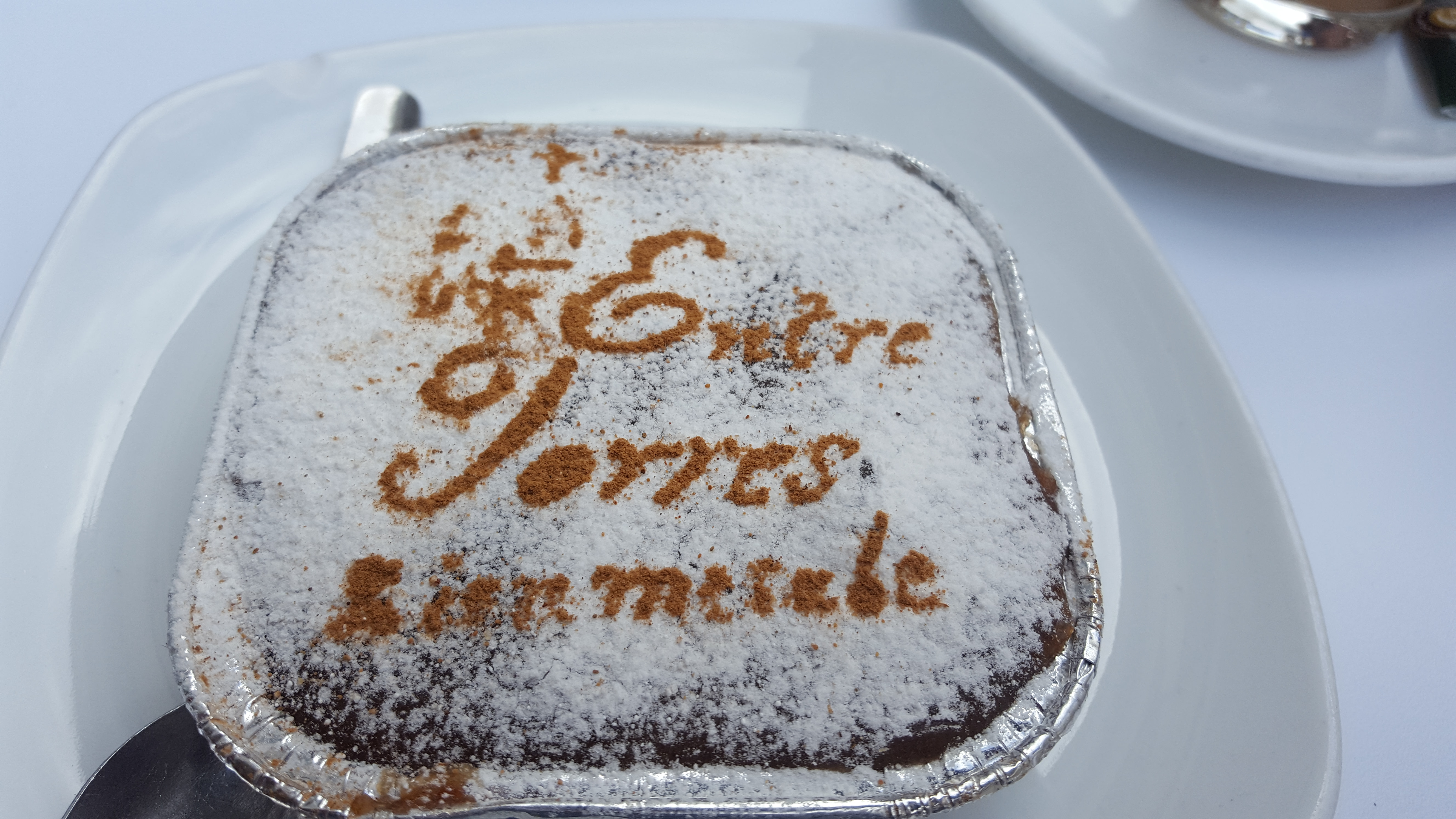 Typical sweet of Antequera, Málaga, Spain